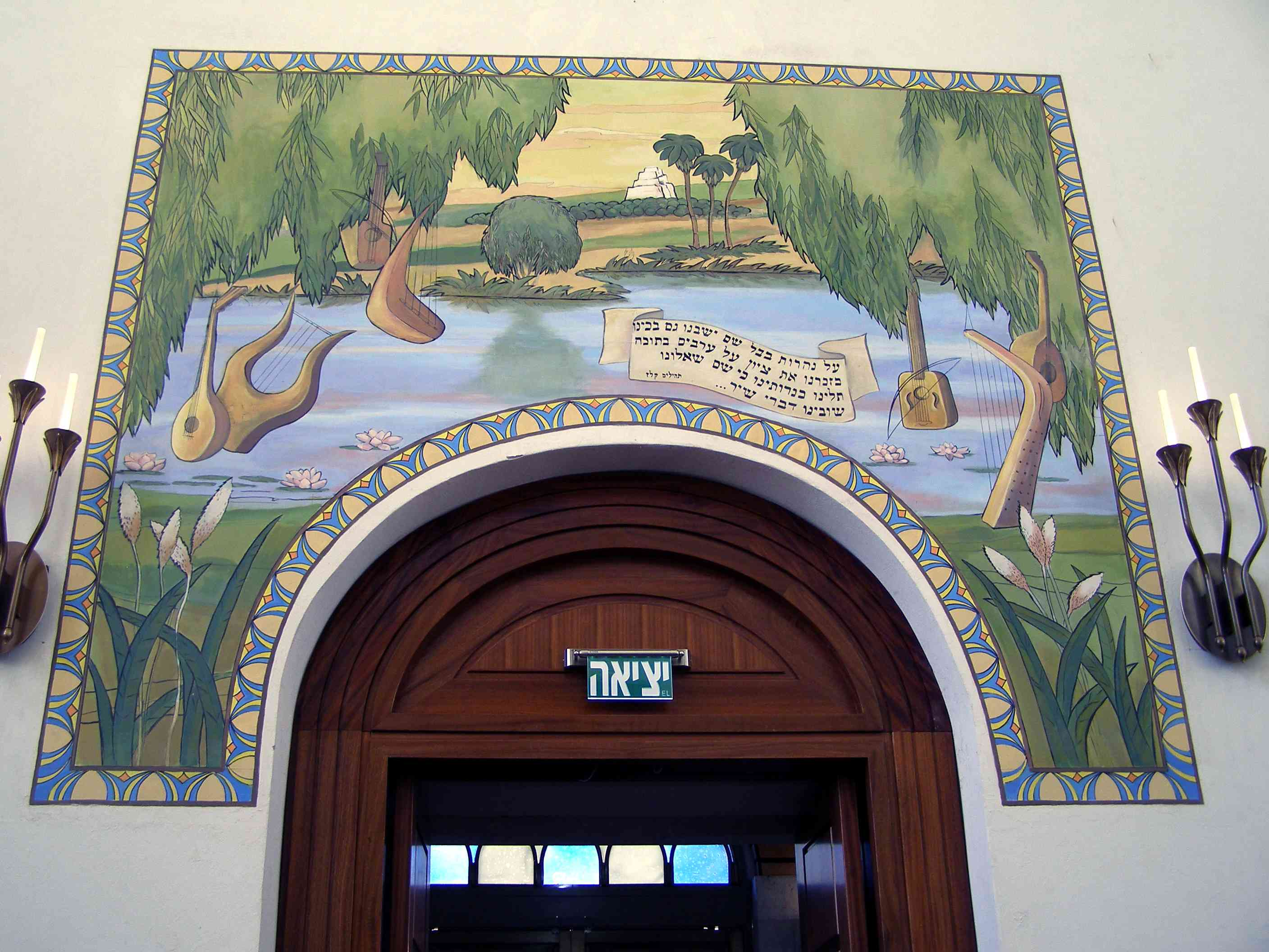 Old Jerusalem - Jewish Quarter - Hurva Synagogue